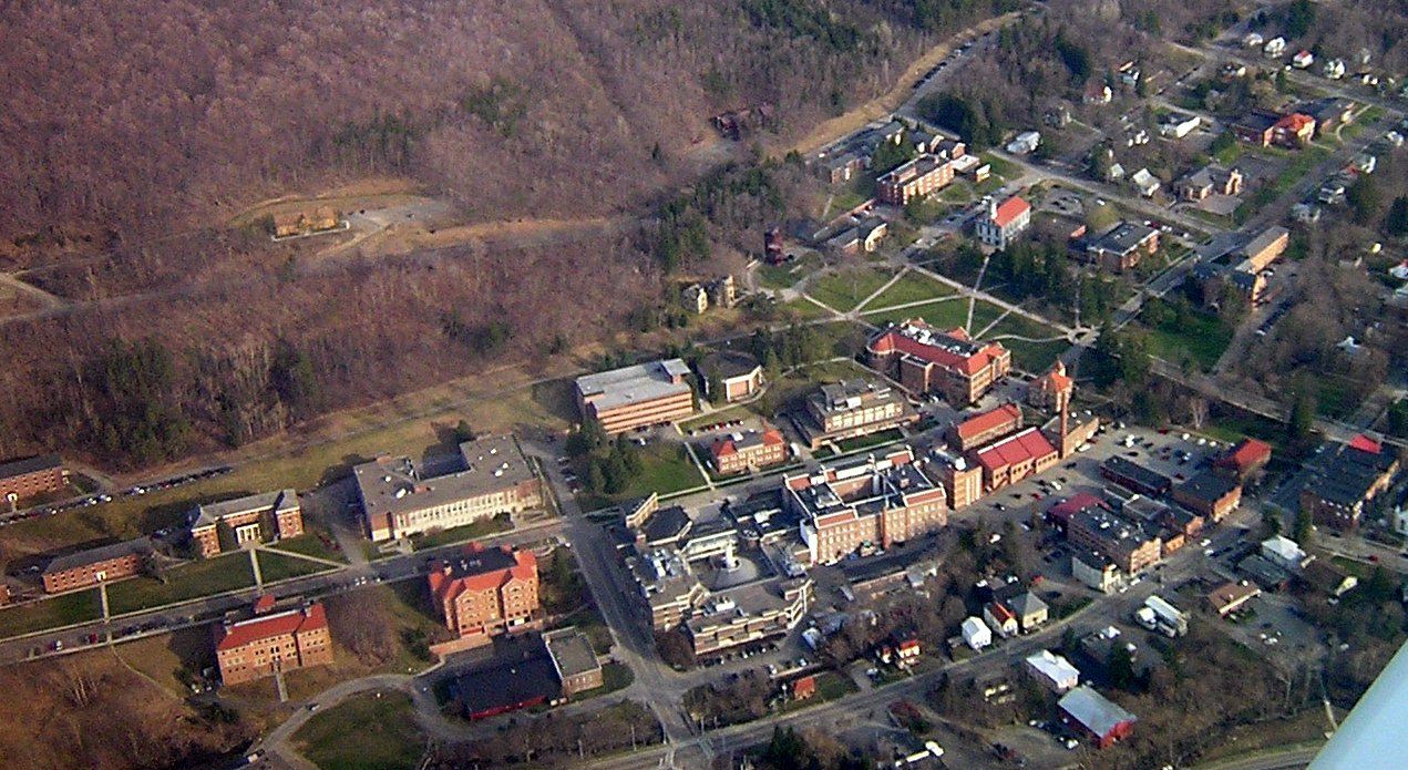 Aerial photo of some of the Alfred University campus taken from around a thousand feet in a small single engine plane in early April, 2006.